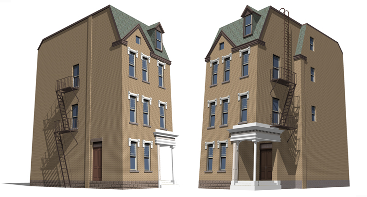 2D image, exported from a 3D model, of a building that once existed, until 1976, on the now demolished RKO Studios backlot called Forty Acres. This particular building, the tallest permanent structure on the backlot, was constructed as the feature set for the 1947 feature film The Long Night as the Allegheny House. It was seen again in the 1949 film noir classic The Set-Up, and later appeared regularly on television's The Andy Griffith Show as Mayberry Hotel. It also appeared on Star Trek's episode of "Miri" in which Captain Kirk and crew find the eponymous character, and later when Spock and security are pelted with rocks from the fire escape above. The same fire escape, which is located on the far side of the structure, is seen also in "The City on the Edge of Forever" where Kirk steals clothes for both he and Spock to blend in with 1930s New York. Showing a SW and SE view of the building as it once stood, the 3D model was constructed in SketchUp 6.0 in 2008 by Bill Wrigley.